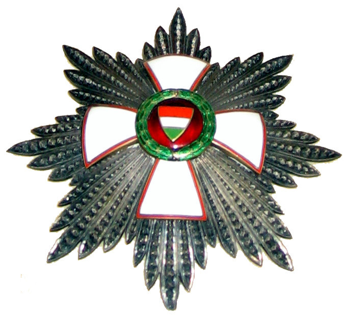 Star of the Hungary Order of Merit, date/period unknown.